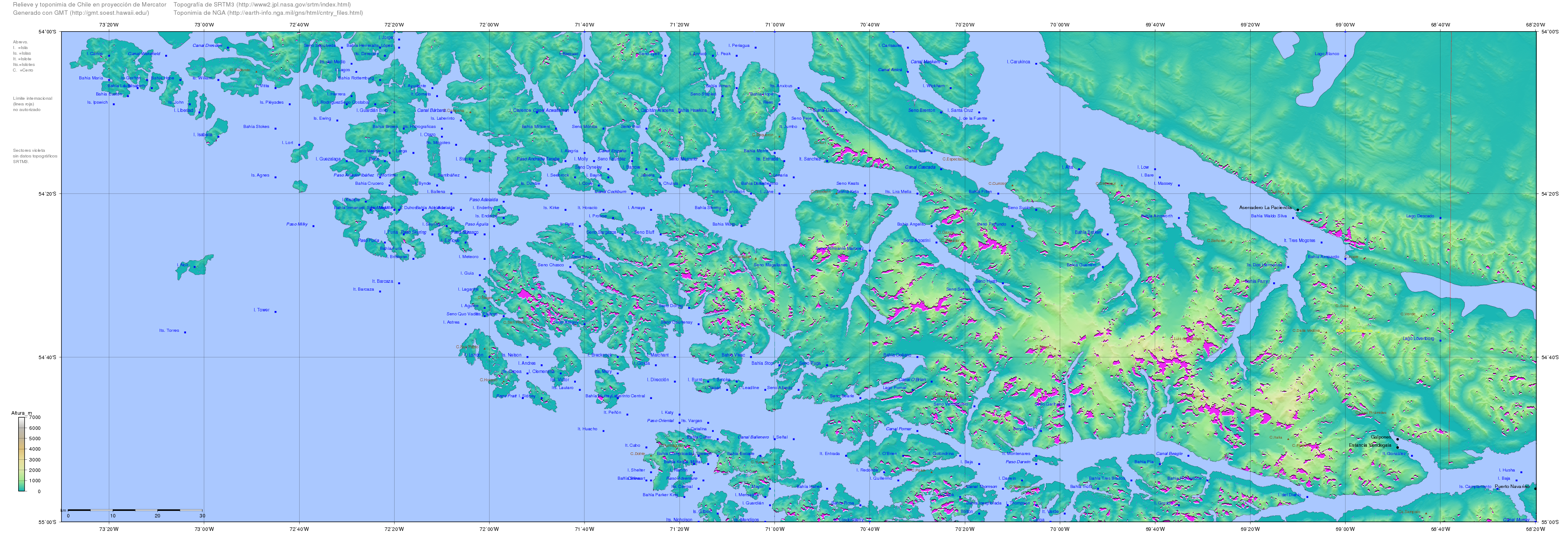 Map of Chile generated with GMT ( topography from SRTM ftp://e0srp01u.ecs.nasa.gov/srtm/version2/SRTM3/ and toponymy from